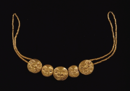 Moche gold necklace. Larco Museum Collection. Lima-Peru